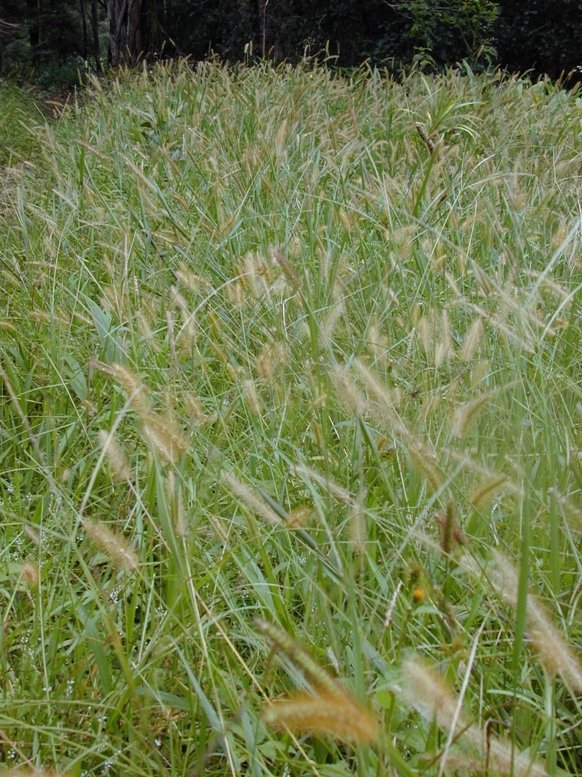 Setaria parviflora (habit). Location: Maui, Wahinepee